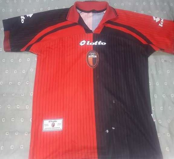 T-shirt holder of Colón 2000